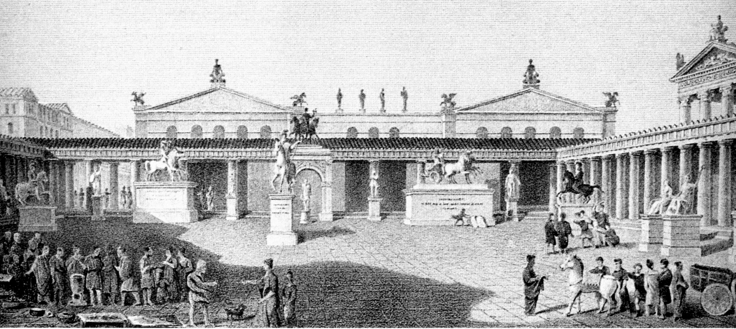 Forum of Pompeii. Illustration by William Gell (1777–1836).